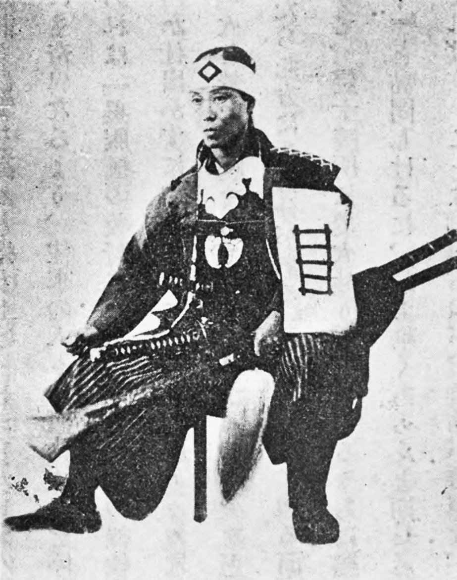 Inoue Sadazō, a samurai of Nagaoka Domain.